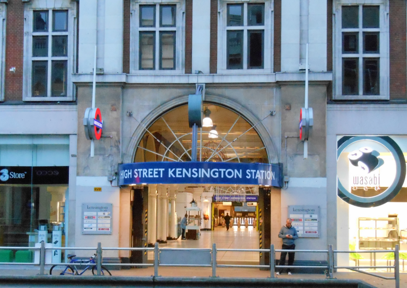 Picture of High Street Kensington station entrance.